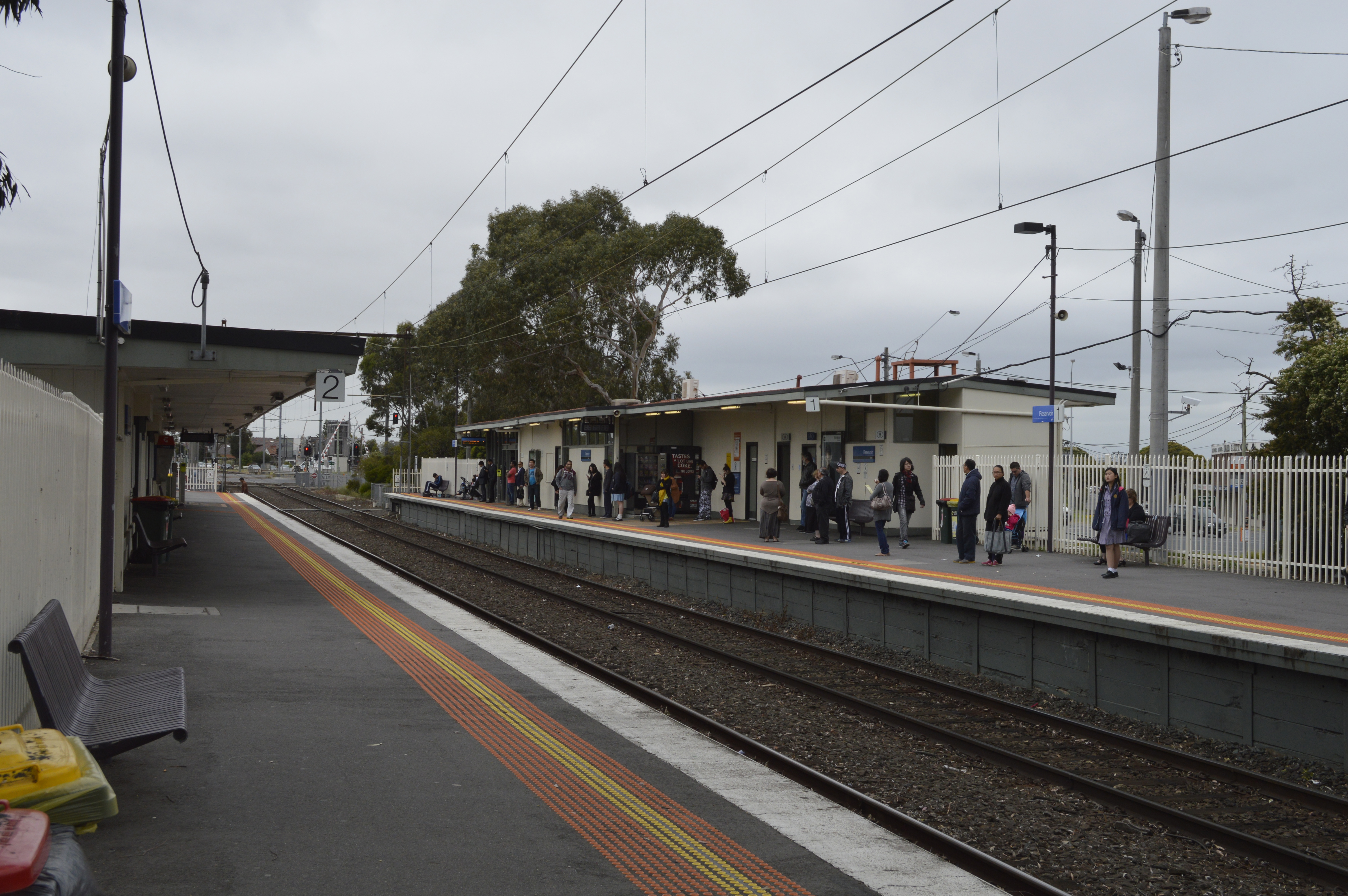 Taken from platform 2 looking north.